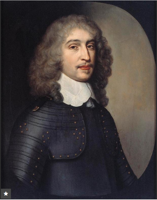 portrait of Louis of Nassau, Lord of den Lek and Beverweerd/Lodewijk van Nassau-Beverweerd (1602-1665)